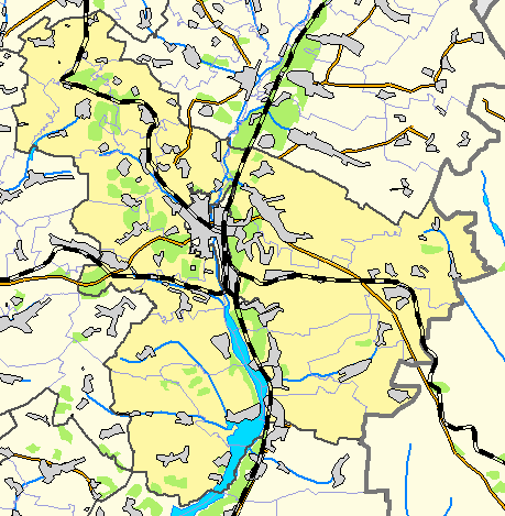 Map of Kupiyanskyi raion, Kharkiv oblast, Ukraine